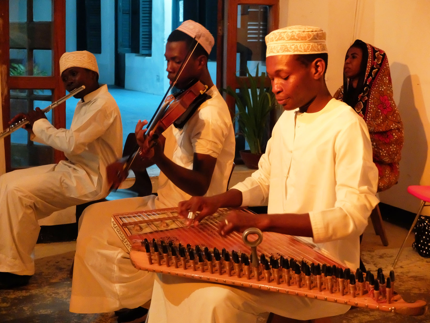 Taarab music at the music academy in Stone Town, Zanzibar, Tanzania This is an image from Tanzania